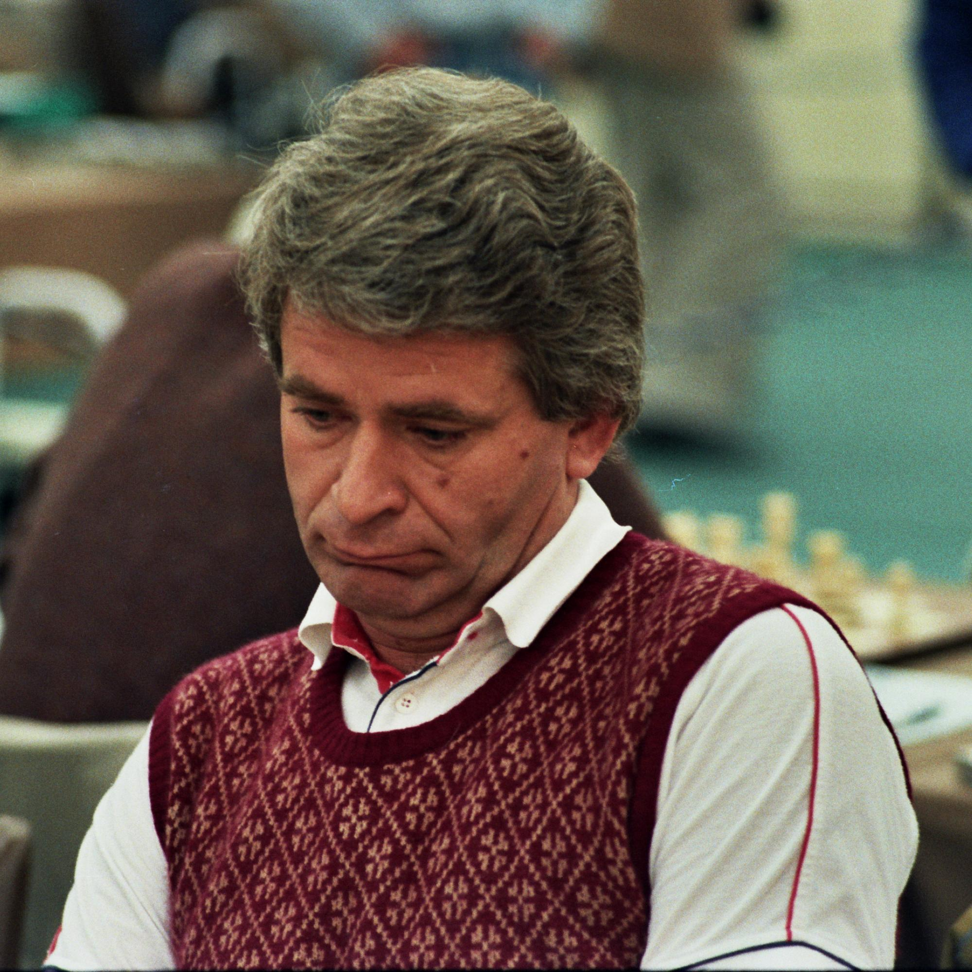 Boris Spasski, Chess Olympiad 1984 in Saloniki, Photographer Gerhard Hund.